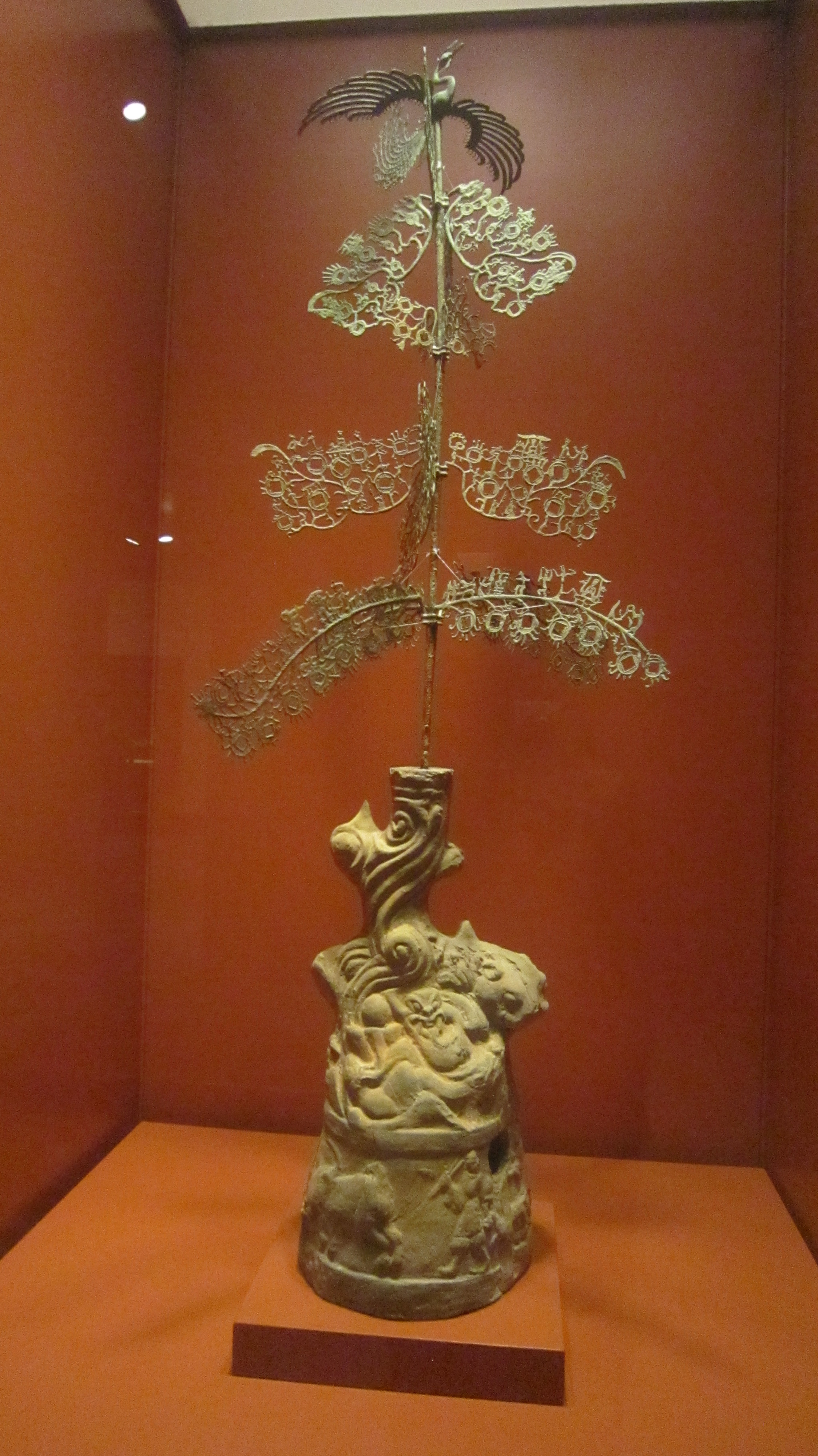 Han dynasty money tree, stored in the Hong Kong Heritage Cultural Museum as one of the artifacts donated by the Tsui Art Foundation